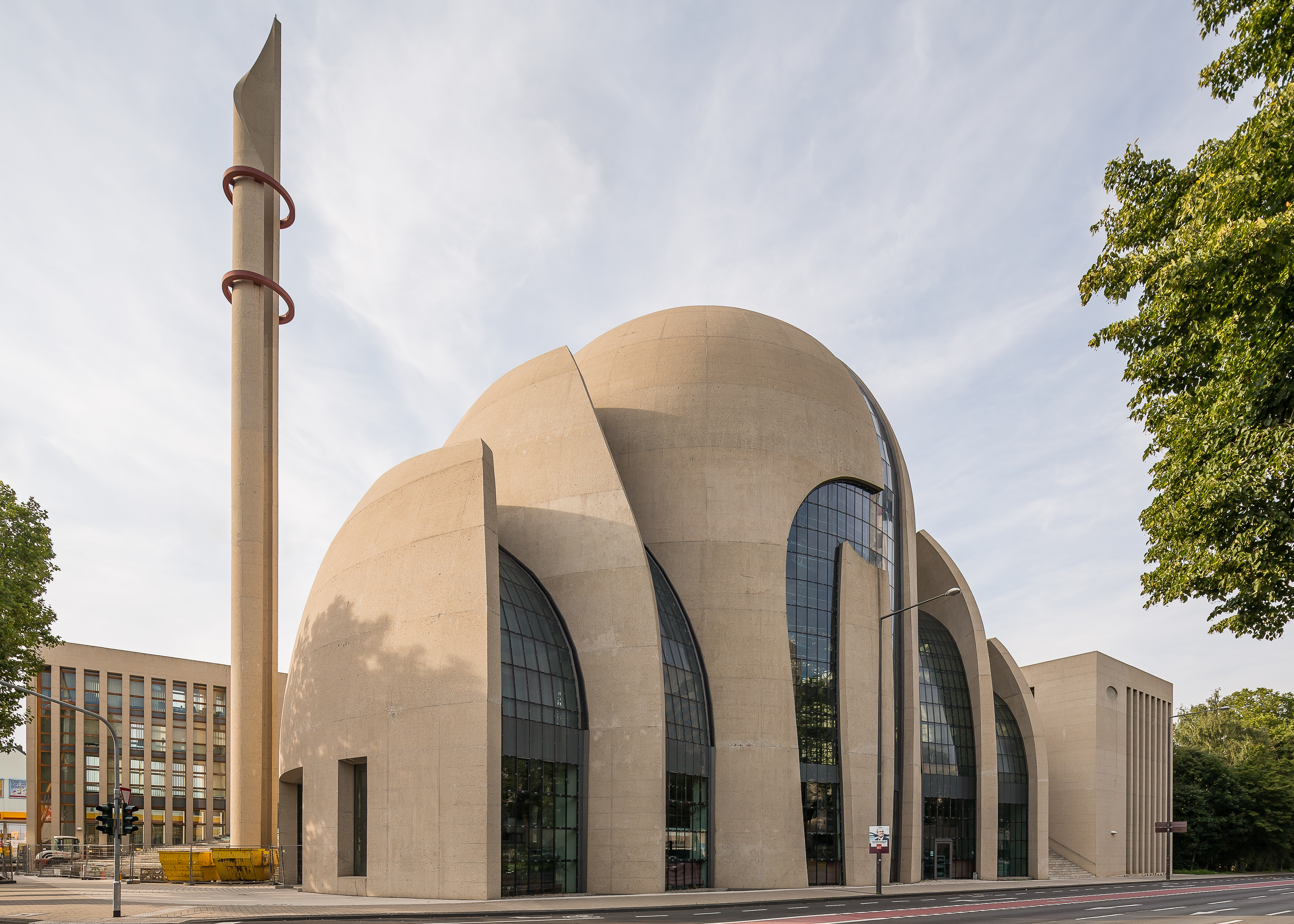 Cologne, Germany: The DITIB Central Mosque in Köln-Ehrenfeld